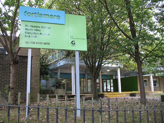 Fortismere. Entrance to the north wing of Fortismere School on Creighton Avenue.